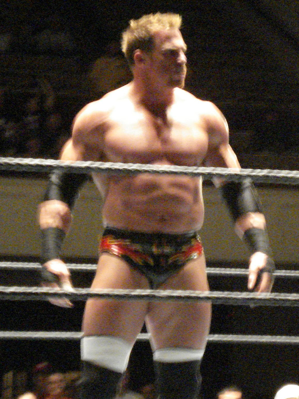 Test at an ECW Live Event. Racine, WI, October 28, 2006. Taken by me.